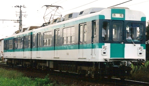 Takamatsu-Kotohira Electric Railroad No 601 at Nishi Maeda